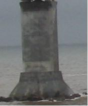 Enlargement of a a pile under the Confederation bridge between New-Brunswick and Prince-Edward Island, Canada. It was extracted from Image:Pont_de_la_Confédération.jpg with MS Paint.